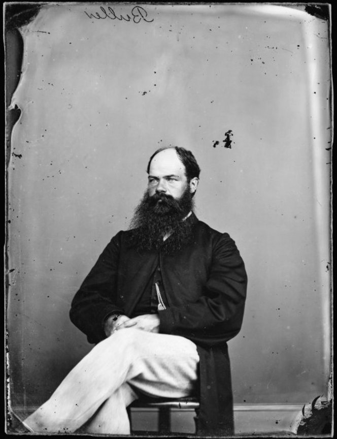 Seated portrait of Walter Lawry Buller. Photograph taken circa 1870 by William James Harding.